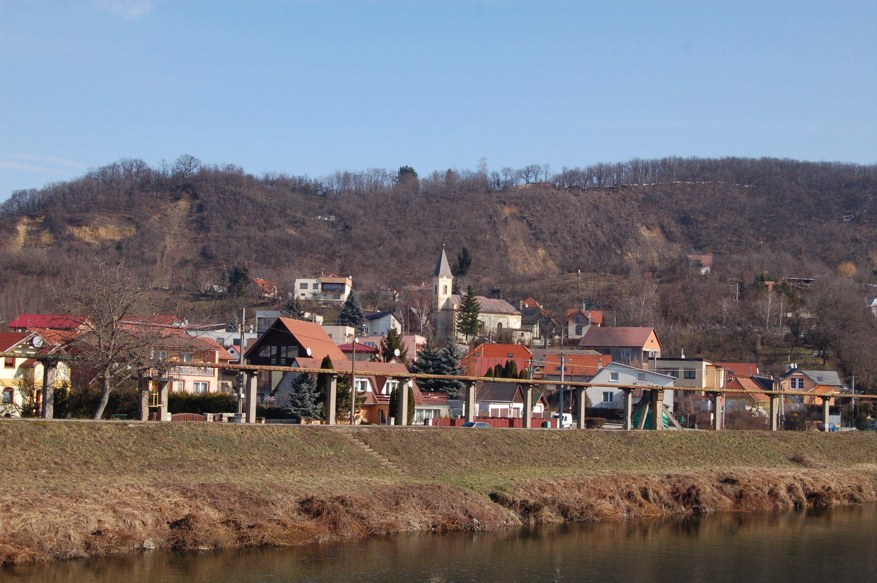 City part of Vyšné Opátske